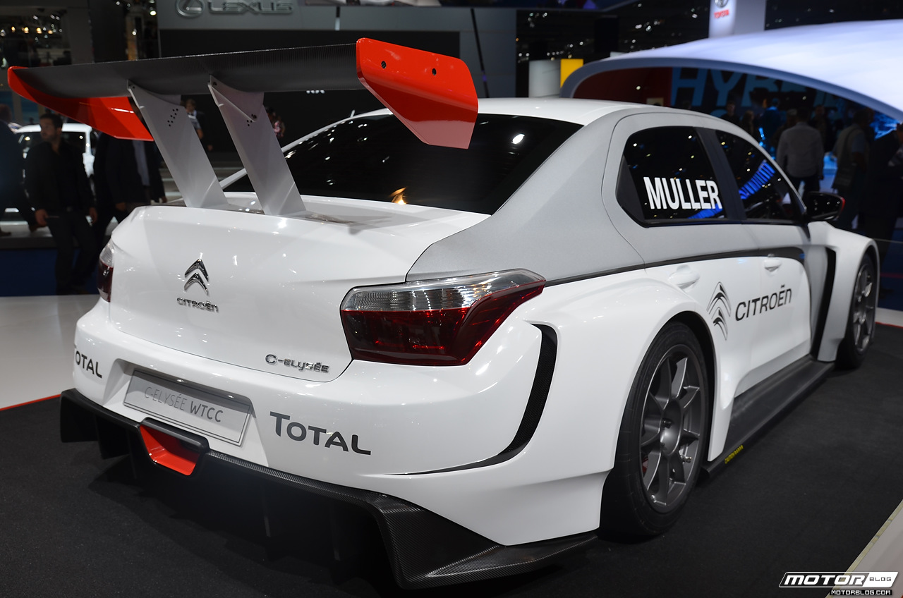 IAA Frankfurt 2013: Citroen C-Elysee WTCC / Photo: Raphael Jahn ______________________ Please feel free to use this image for FREE under the Creative Commons (CC) licence. However, if you use the image, pls set a backlink to and give credit as following: "Image: ". For highres images or any other inquiries pls contact mailto: . Thanks.